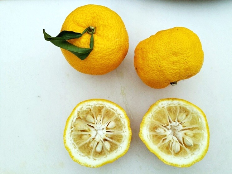 yuja (Citrus junos)